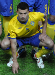 Behrang Safari (Sweden) before the UEFA Euro 2012 qualifying match against San Marino on September 7, 2010